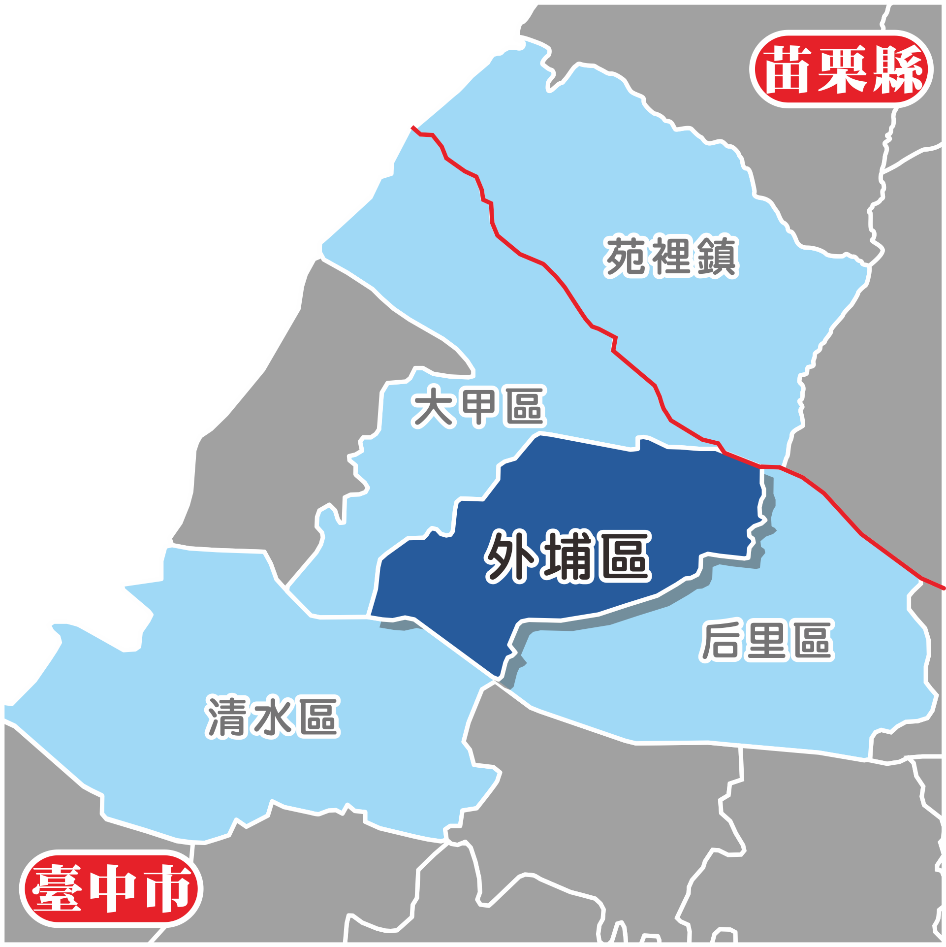 Waipu District